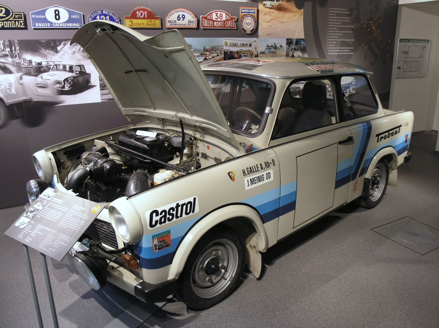 P 800 RS Trabant (1988 / 1986-1988 3 cars)